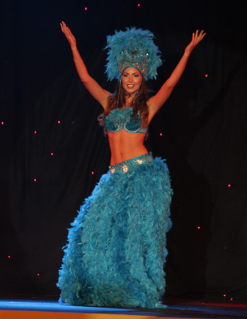 Miss Chile 2008 Natalia Chilet during the talent show of Miss World 08 in Johannesburg